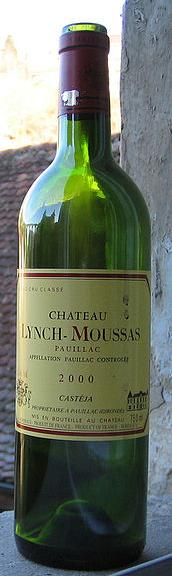 French wine from Bordeaux